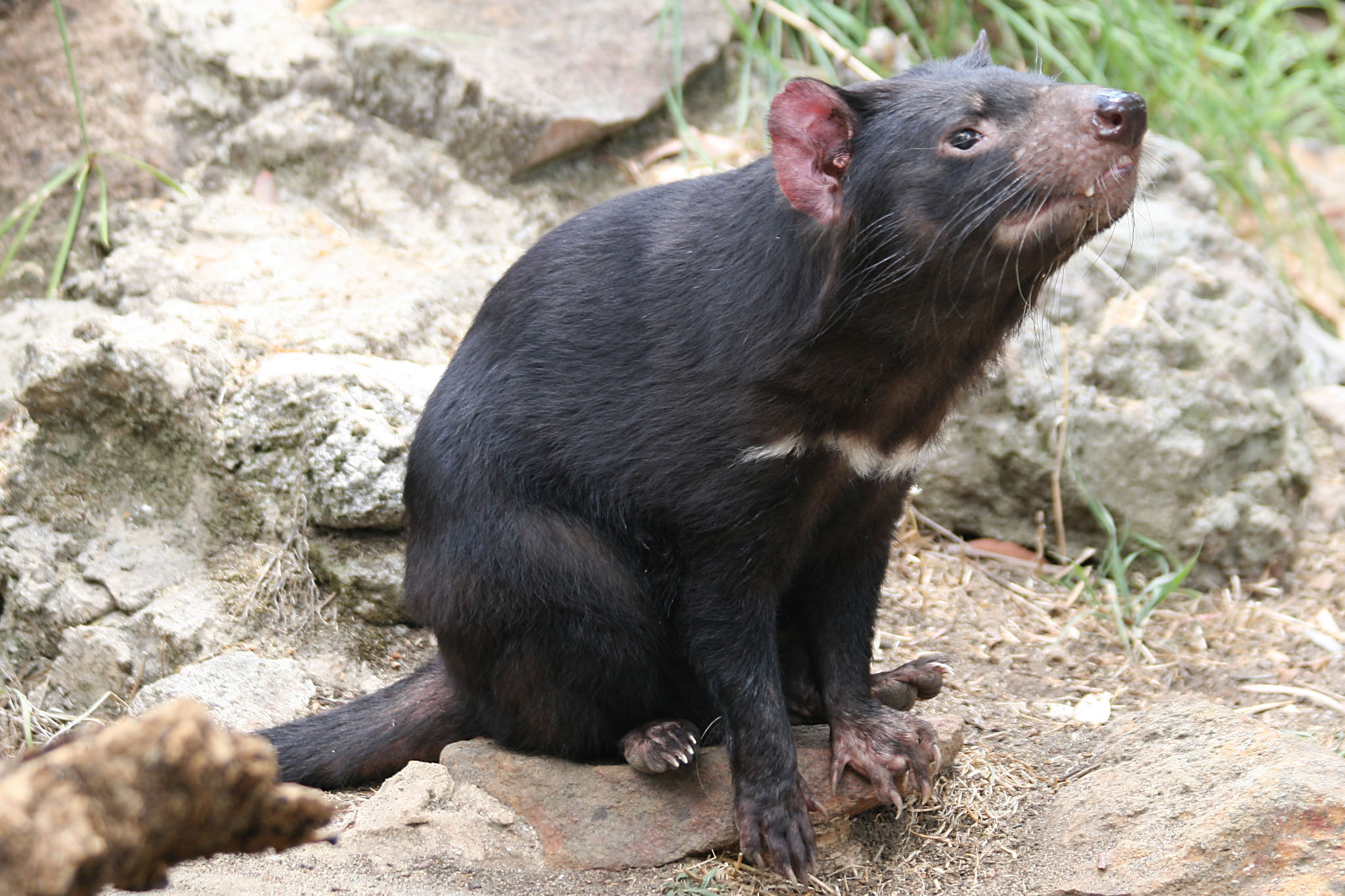 Tasmanian Devil.